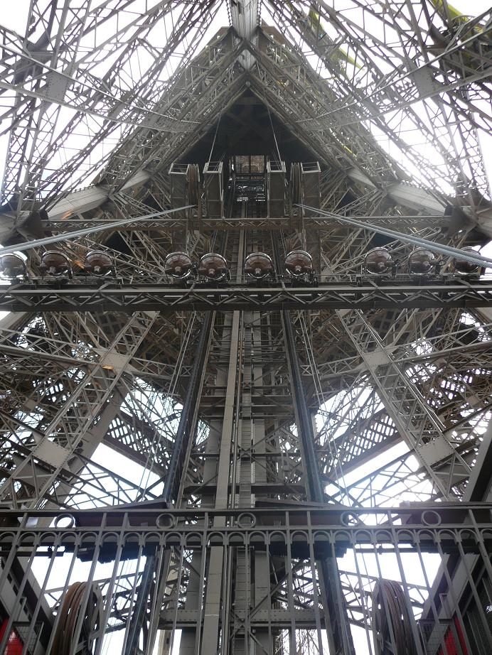 Elevator shaft, Eiffel Tower, Paris, France.